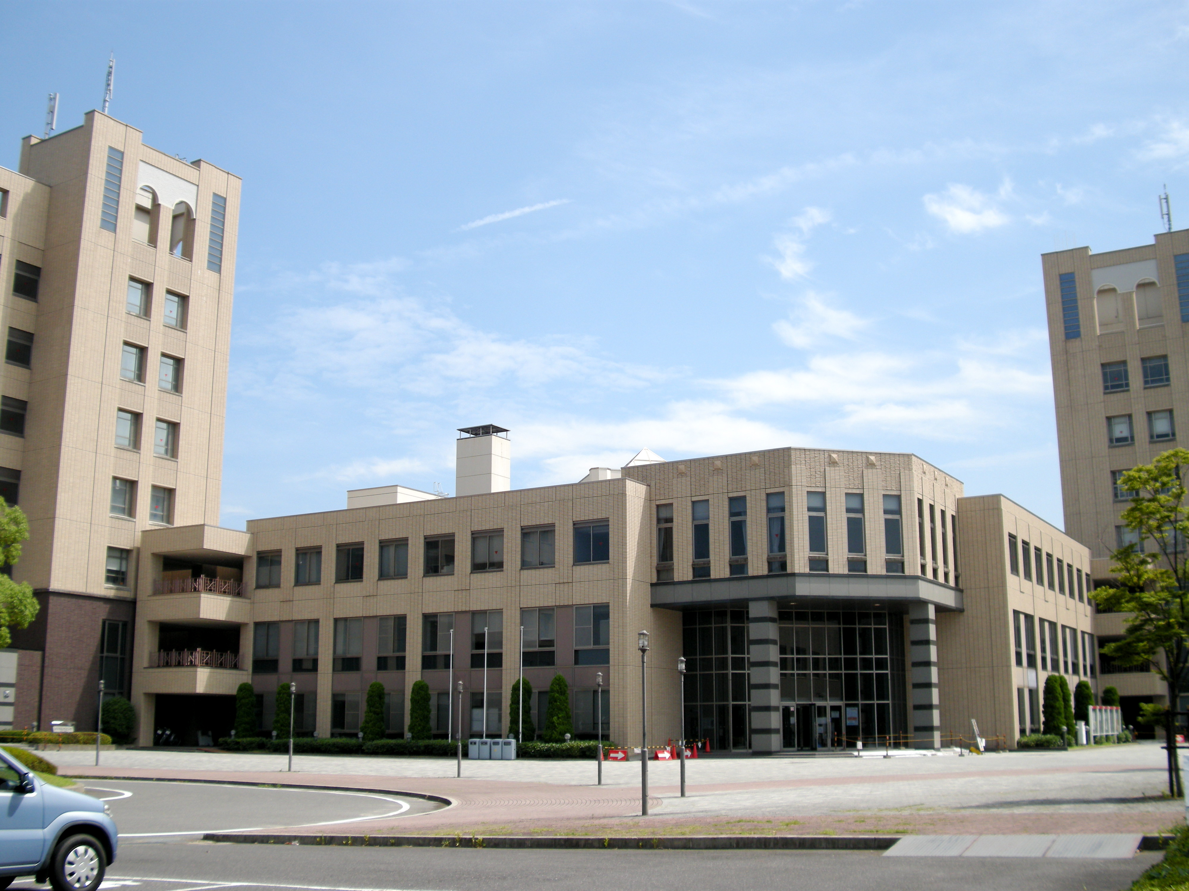 Core Station, (Biwako Kusatsu Campus, Ritsumeikan University, Japan)